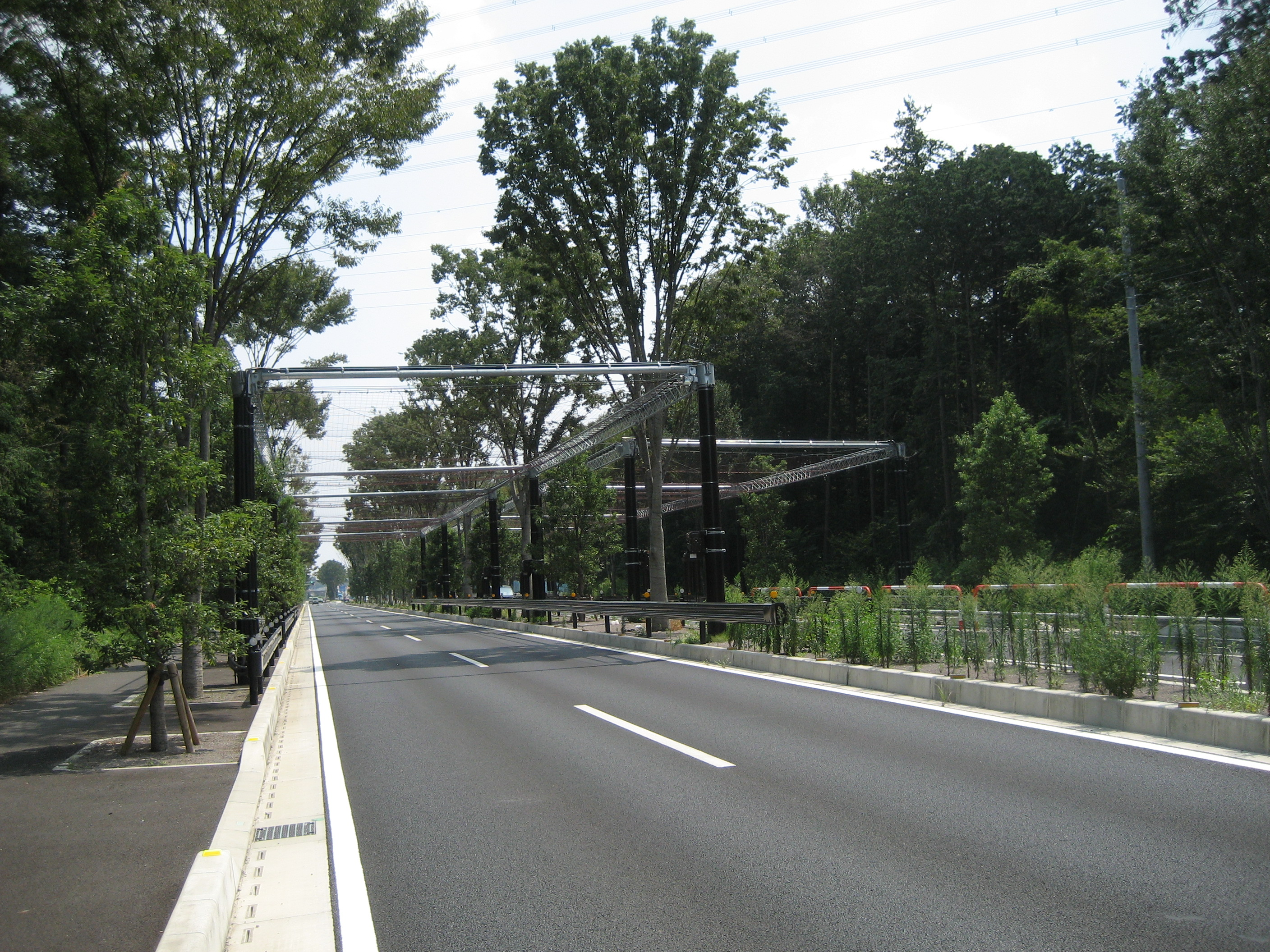 The Saitama Prefectural Road Route 126, protection area for northern goshawk (Accipiter gentilis) in Sayama City